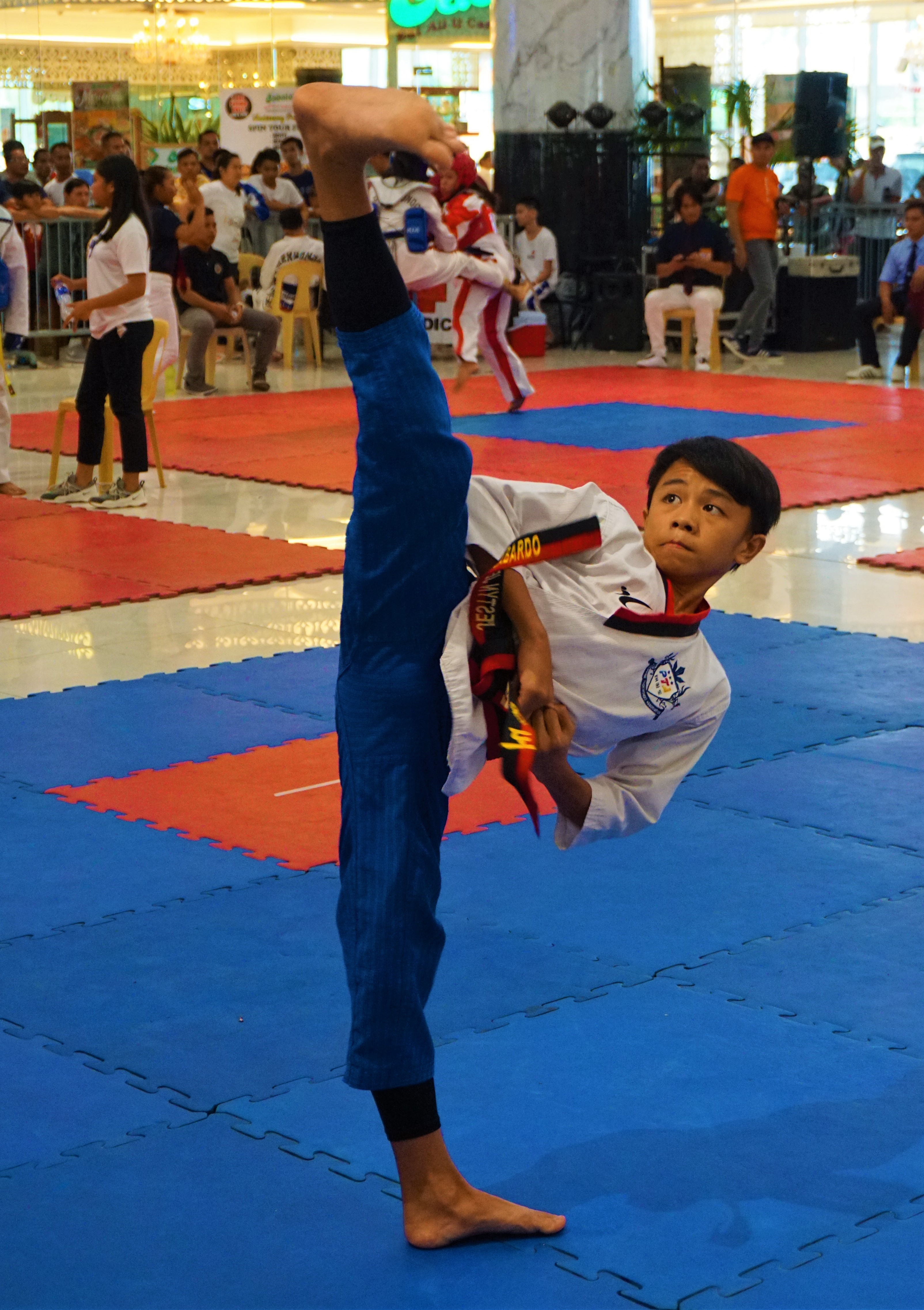 A young Taekwondo student performs Koryo during a local tournament at Robinsons Place Butuan.